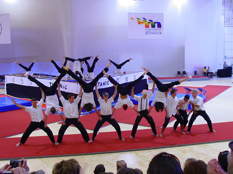 Worldgymnaestrada 2003 in Lissabon, Gymnastics-Club TS Wolfurt